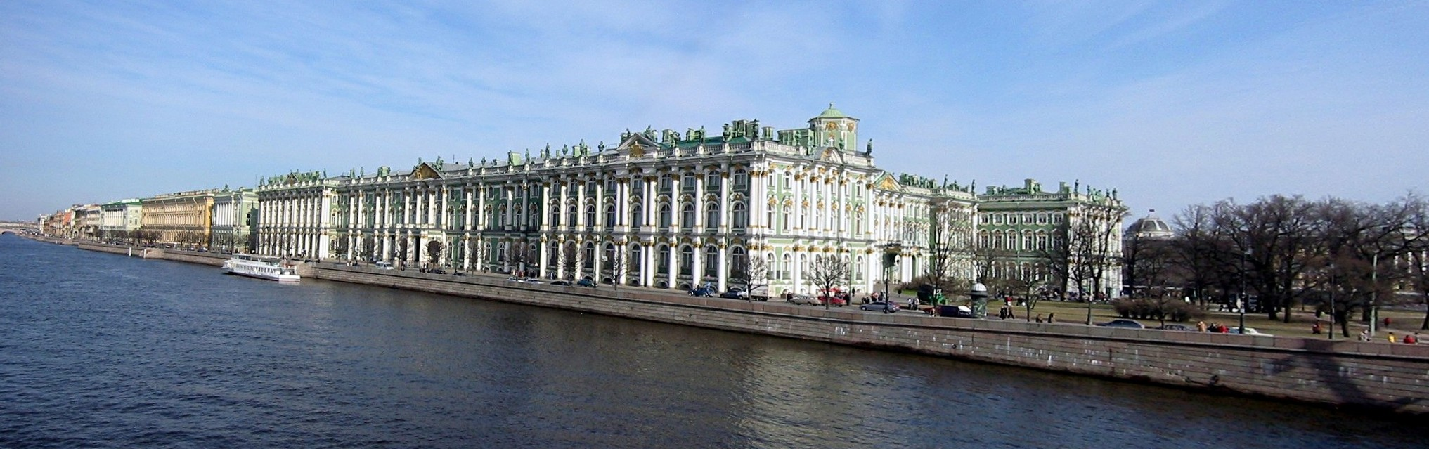 Stitched panorama of the most famous building in St. Petersburg.